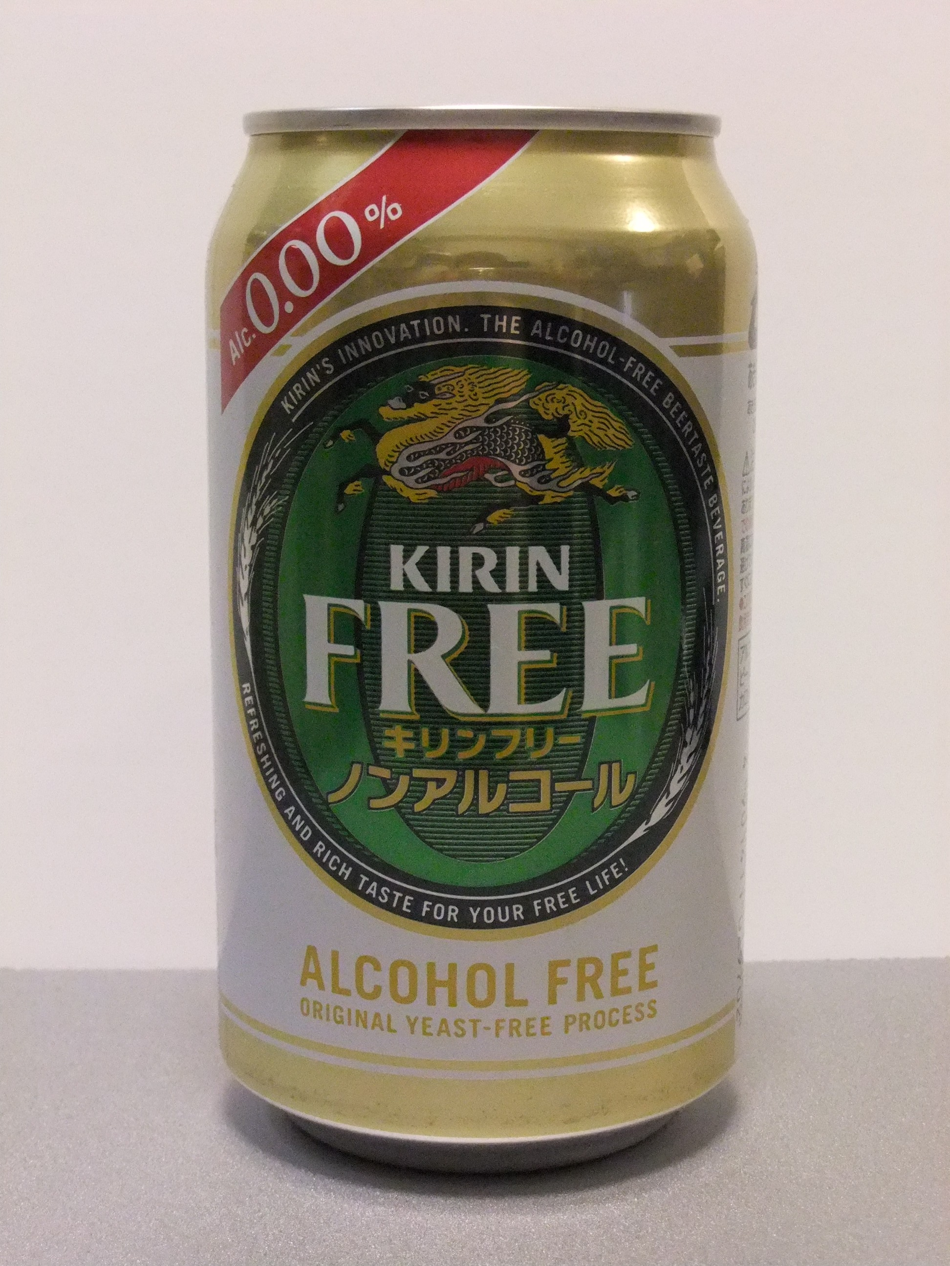 Kirin Brewery Company , Kirin Free